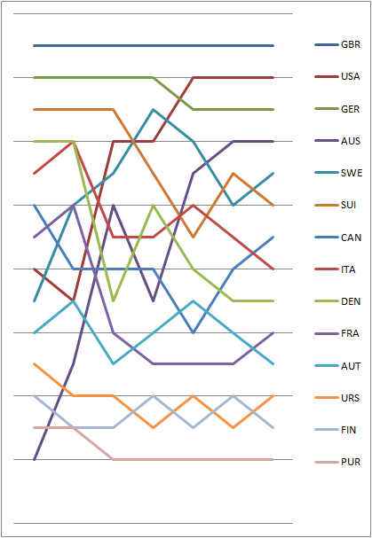 1976 TORNADO Daily standings during the Olympic sailing event